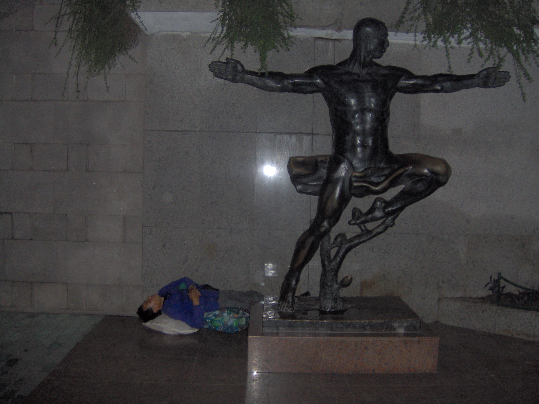 A homeless individual near Waitan in Shanghai.